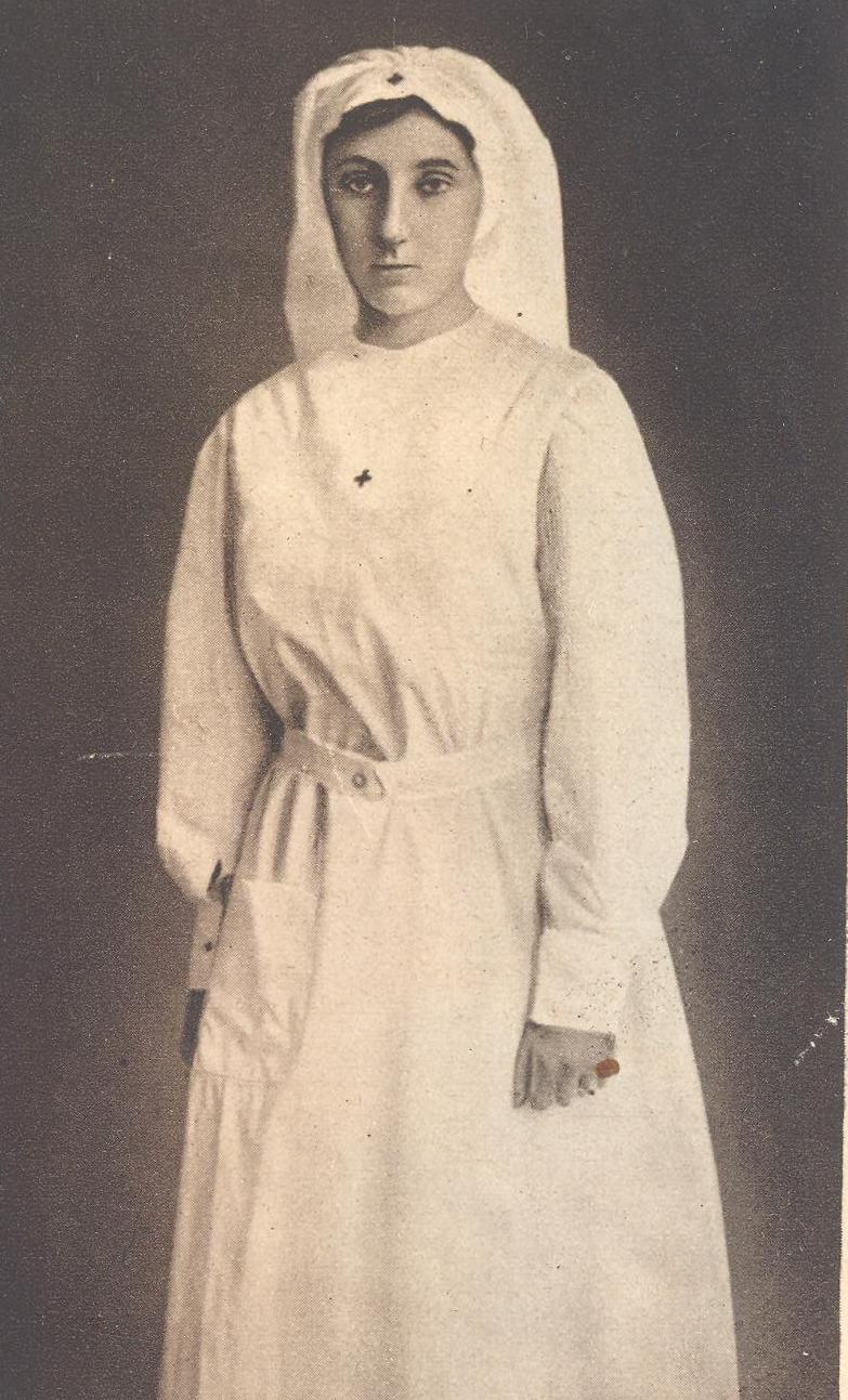 Princess Nadezhda of Bulgaria. Rudolf Mosse, "Album de la Grande Guerre" №10, 1915